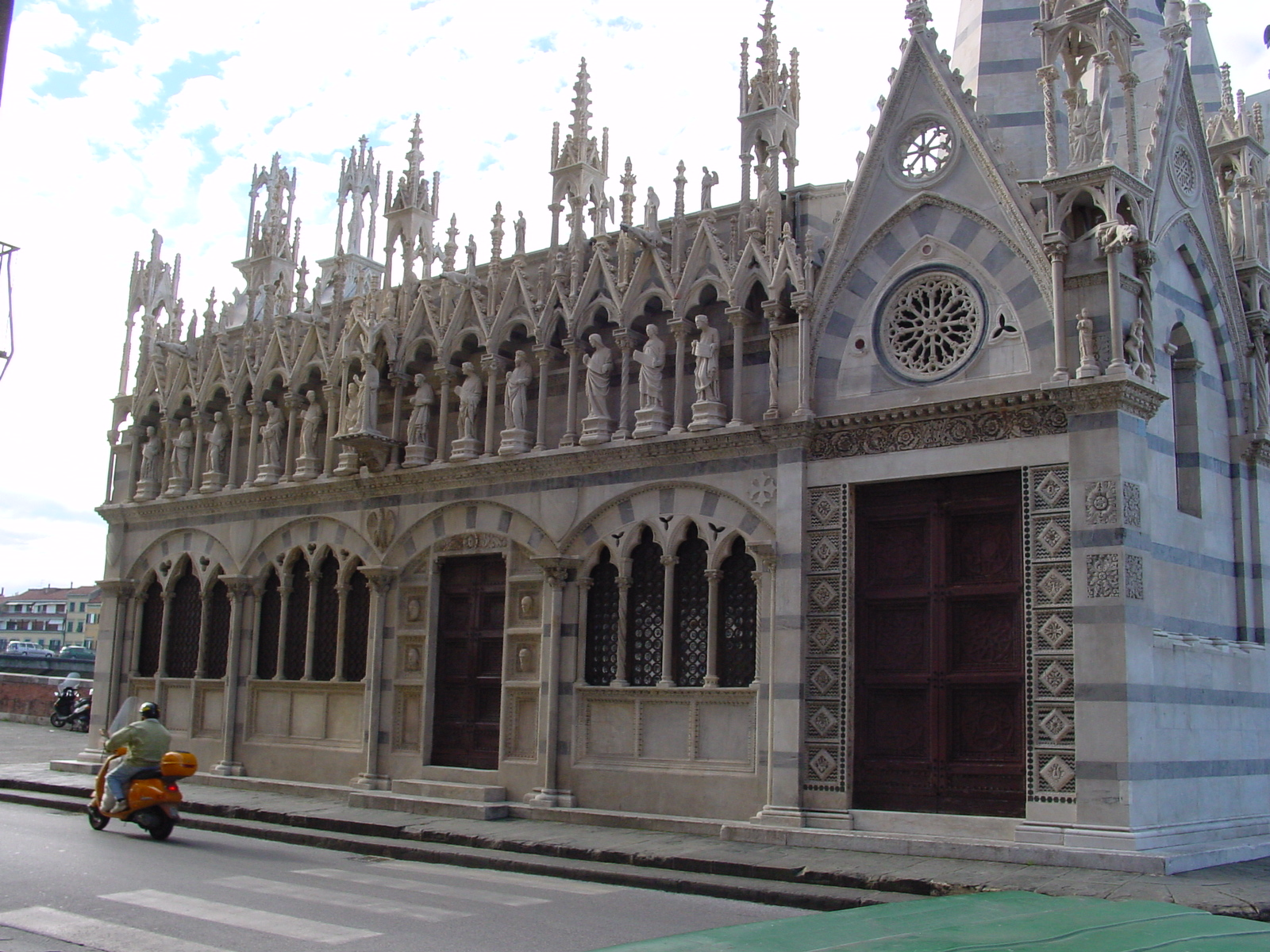 Church Santa Maria della spina in Pisa, Italy.